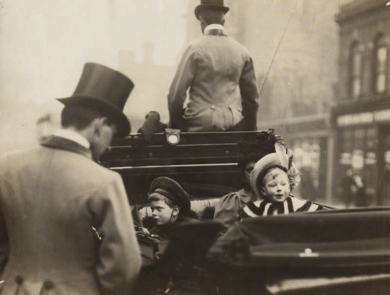 Prince George and Prince John on a royal shopping trip.